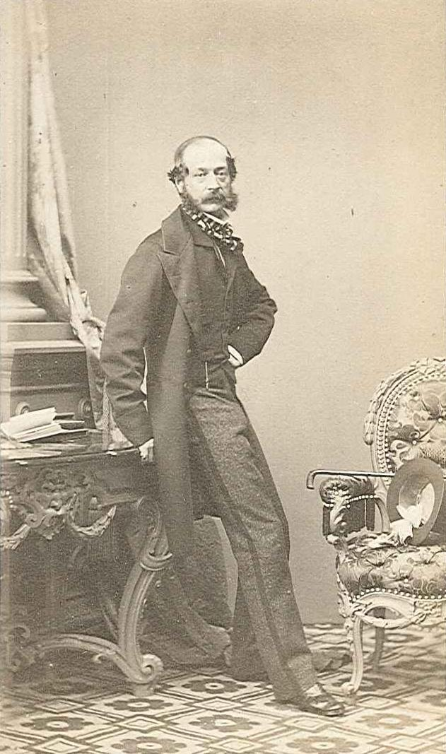 Count Nikolaus III. Esterhazy